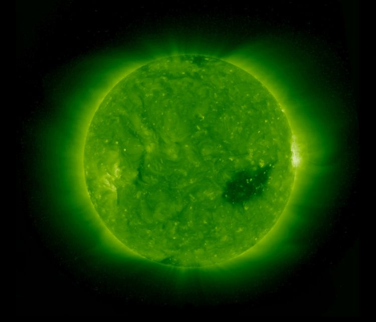 Solar Disk with Coronal Hole - May 25, 2007 - by NASA STEREO (Solar TErrestrial RElations Observatory)